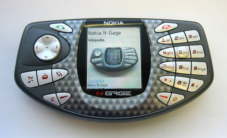 The Nokia N-Gage browsing Wikipedia using the Opera browser.